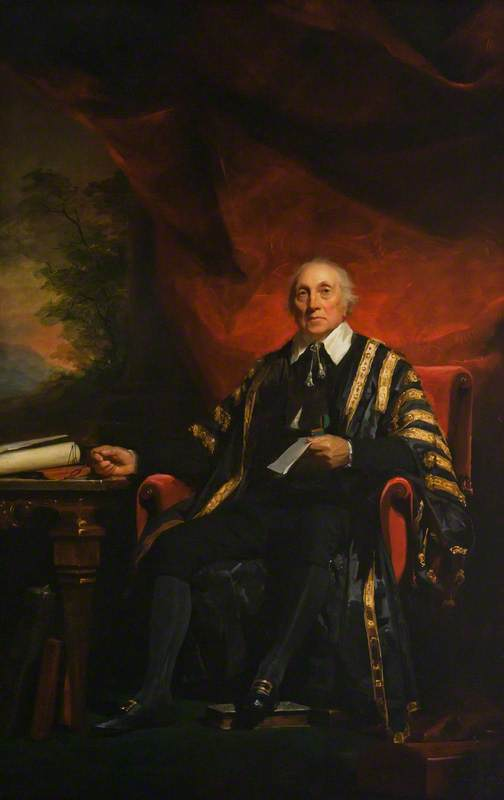 Portrait of Lord Frederick Campbell by Henry Raeburn. Held by the National Records of Scotland.